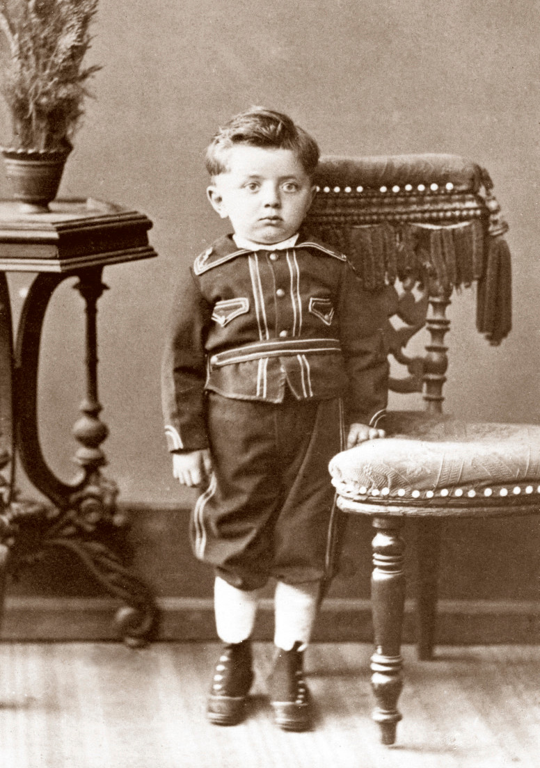 Calouste Sarkis Gulbenkian was a British businessman and philanthropist of Armenian origin. He played a major role in making the petroleum reserves of the Middle East available to Western development. By the end of his life he had become one of the world's wealthiest individuals and his art acquisitions considered one of the greatest private collections.